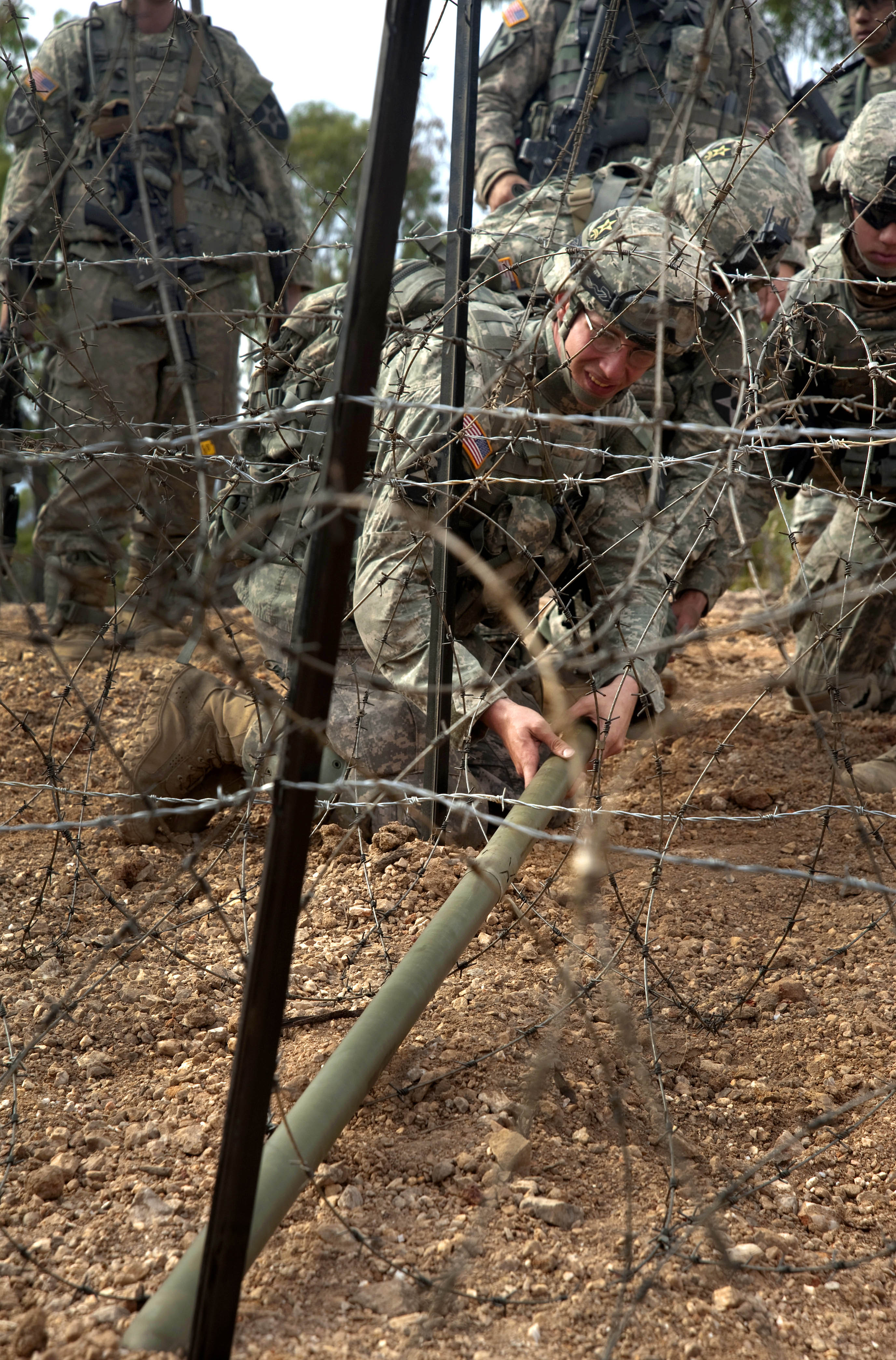 U.S. Army soldiers with the 38th Engineer Company, 4th Stryker Brigade, 2nd Infantry Division place a Bangalore explosive to clear a barbed wire obstacle during Talisman Sabre 2011 at the Shoalwater Bay Training Area in Queensland, Australia, on July 15, 2011. Talisman Sabre is a combined biennial exercise between the U.S. and Australian militaries designed to enhance both nations.